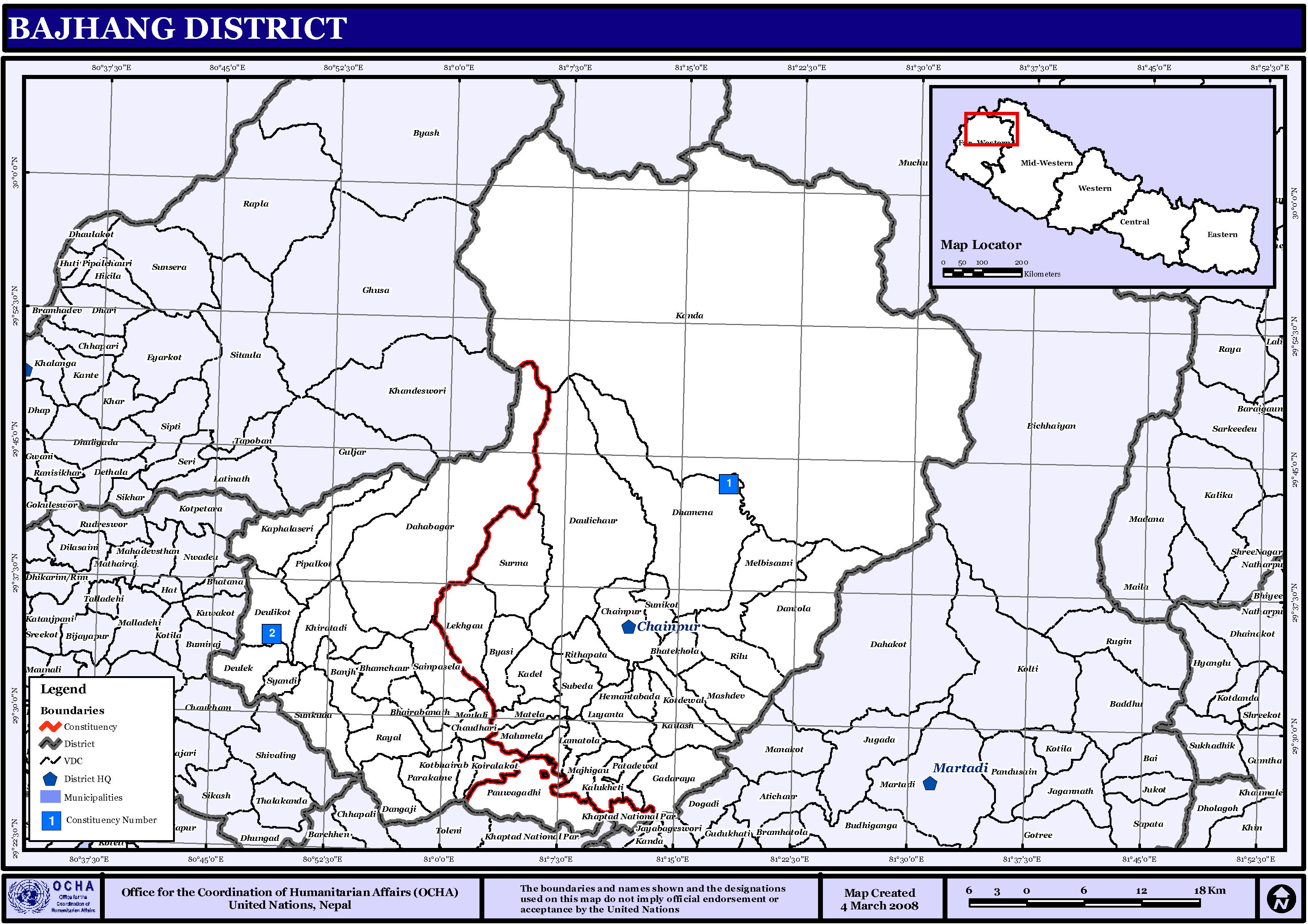 Map displaying Village Development Committees in Bajhang District, Nepal